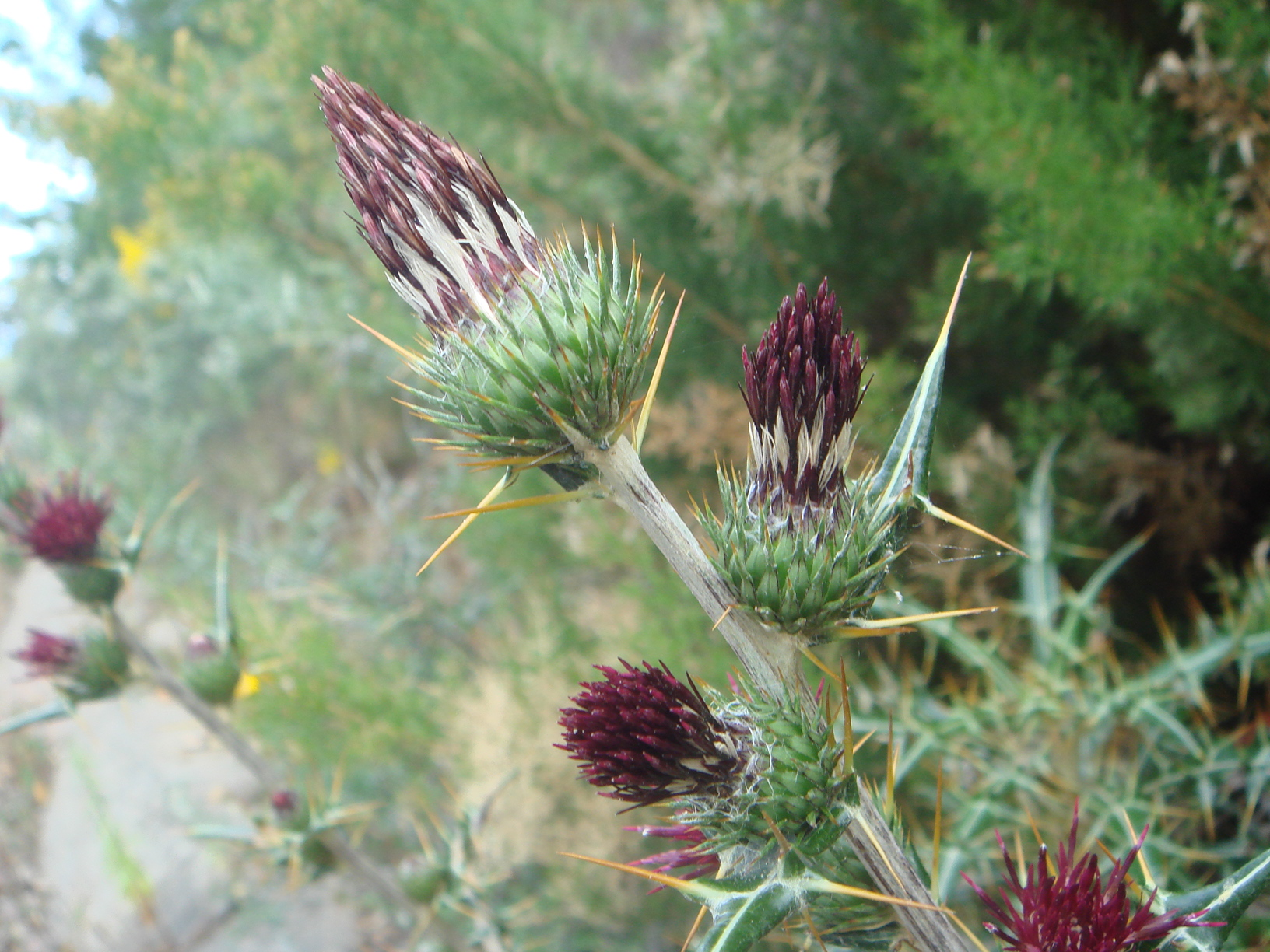 (Ptilostemon abylensis), Spain Ceuta.